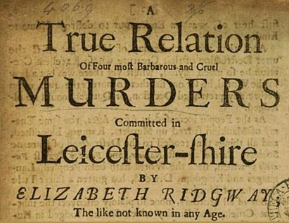 A True relation of four most barbarous and cruel MURDERS committed in Leicester-shire by ELIZABETH RIDGWAY; The Like not Known in any Age. With the Particulars of Time, Place, (and other Circumstances) how she first poisoned her own Mother; after that, a Fellow Servant; then her Sweet-Heart; and last of all her Husband; for all which Tragical Murders the being brought to Justice, was Tryed, and found Guilty, at the late Lent-Assizes held for the said County: and for the same, was Burnt to Death, on Monday the 24th. of March, 1684. [Printed by Geo. Croom, 1684]